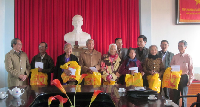 very good